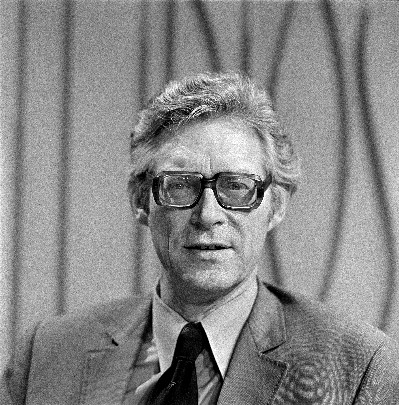 Herman Kuiphof in 1978